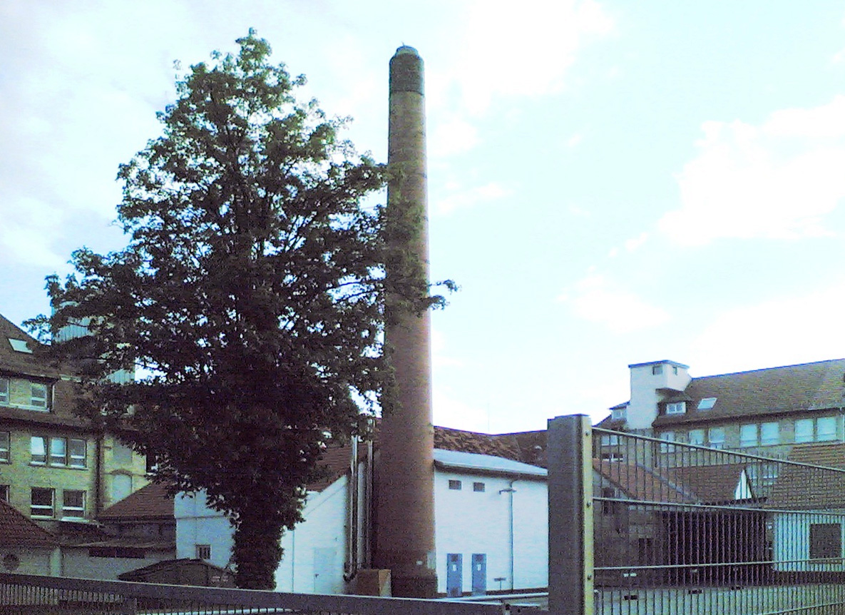 ISGUS GmbH in Villingen-Schwenningen, Germany